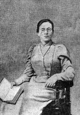 Russian writer Valentina Iovovna Dmitryeva